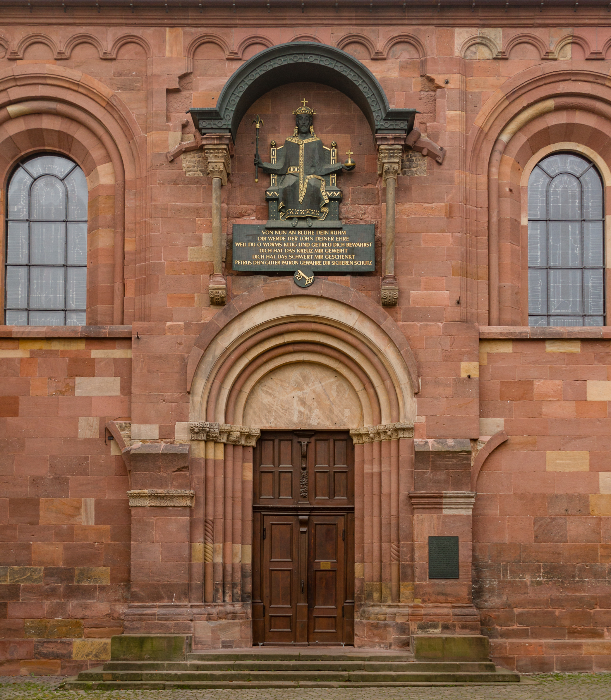 This is a photograph of an architectural monument.It is on the list of cultural monuments of Worms Designation: Catholic St Peter's Dom Construction time: 1130 to 1181 Description: Late Romanesque double-choir three-nave basilica with transept, crossing tower and four corner towers, chapel and sacristy buildings. East choir, transept and nave on the foundation walls of the late-ottonian Burchard dome, begun in 1005, and the masonry of the west towers. East parts 1130-45, nave bay two to five completed in 1160-70, west choir around 1200. Late Gothic Nikolauskapelle, circa 1280-1315. Gothic south portal, soon after 1300. Annen- and Georgskapelle, shortly after 1300. Late Gothic chapel of the Holy Cross or Silver Chamber, end of the 13th century. Late Gothic Aegidia or St. Mary's Chapel, second half of the 15th century. Southern cloister portal (Schloßgasse 6), late Romanesque stepped portal, late 12th century. Domestic equipments South of the cathedral remains of a piscina in early Christian-early medieval tradition. In front of the west choir 'Siegfriedstein', limestone block. Spolia in the garden (former cloister): Romanesque building sculpture. In the enclosure wall at the Platz der Partnerschaft sandstone reliefs, 1930s. Place: Municipality Worms, Rhineland-Palatinate, Germany Location: Domplatz House number: 1